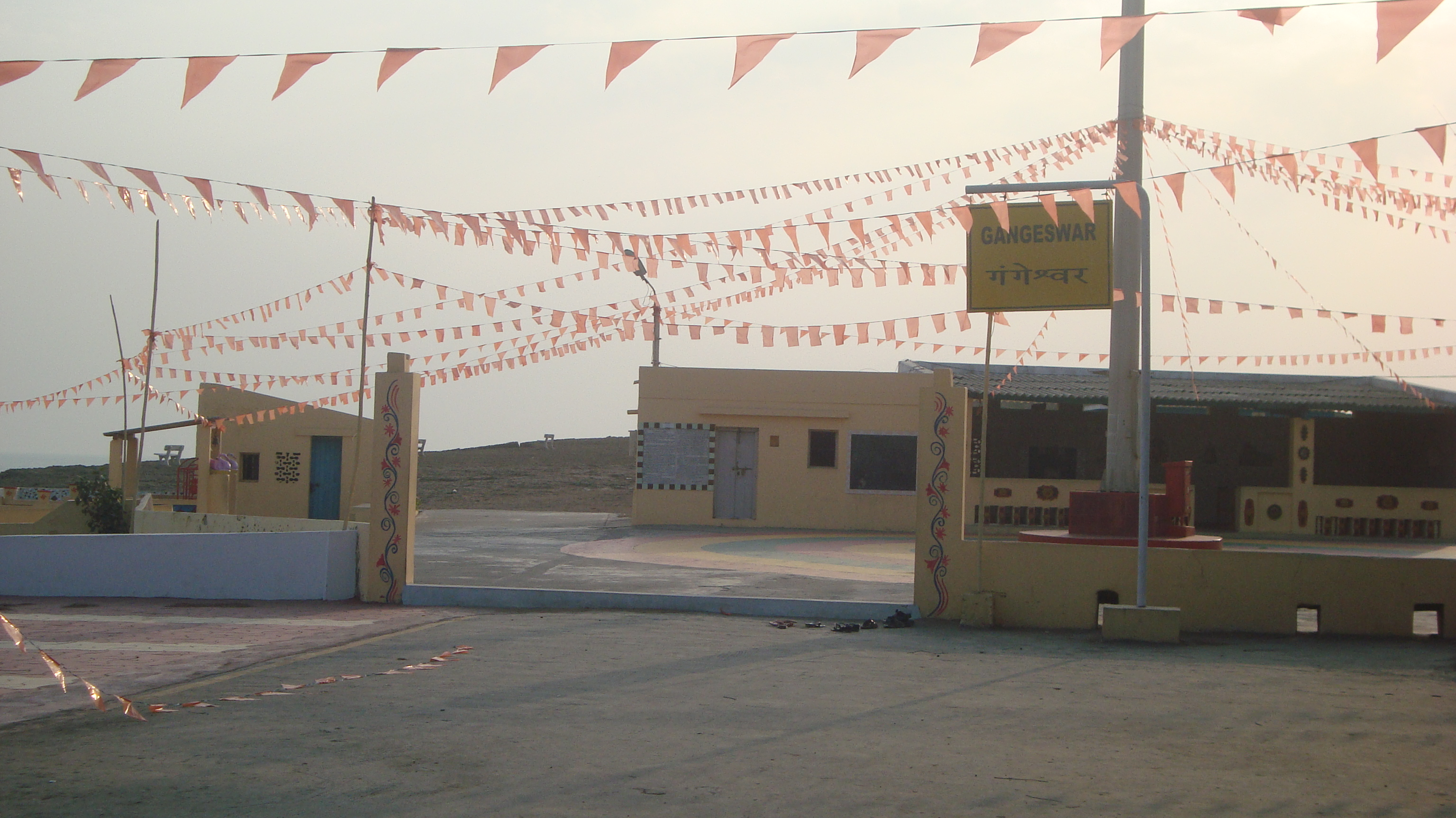 This is a lord Shiva Temple in Diu